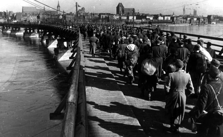 German POWs captured during the Battle of Königsberg, April 1945.